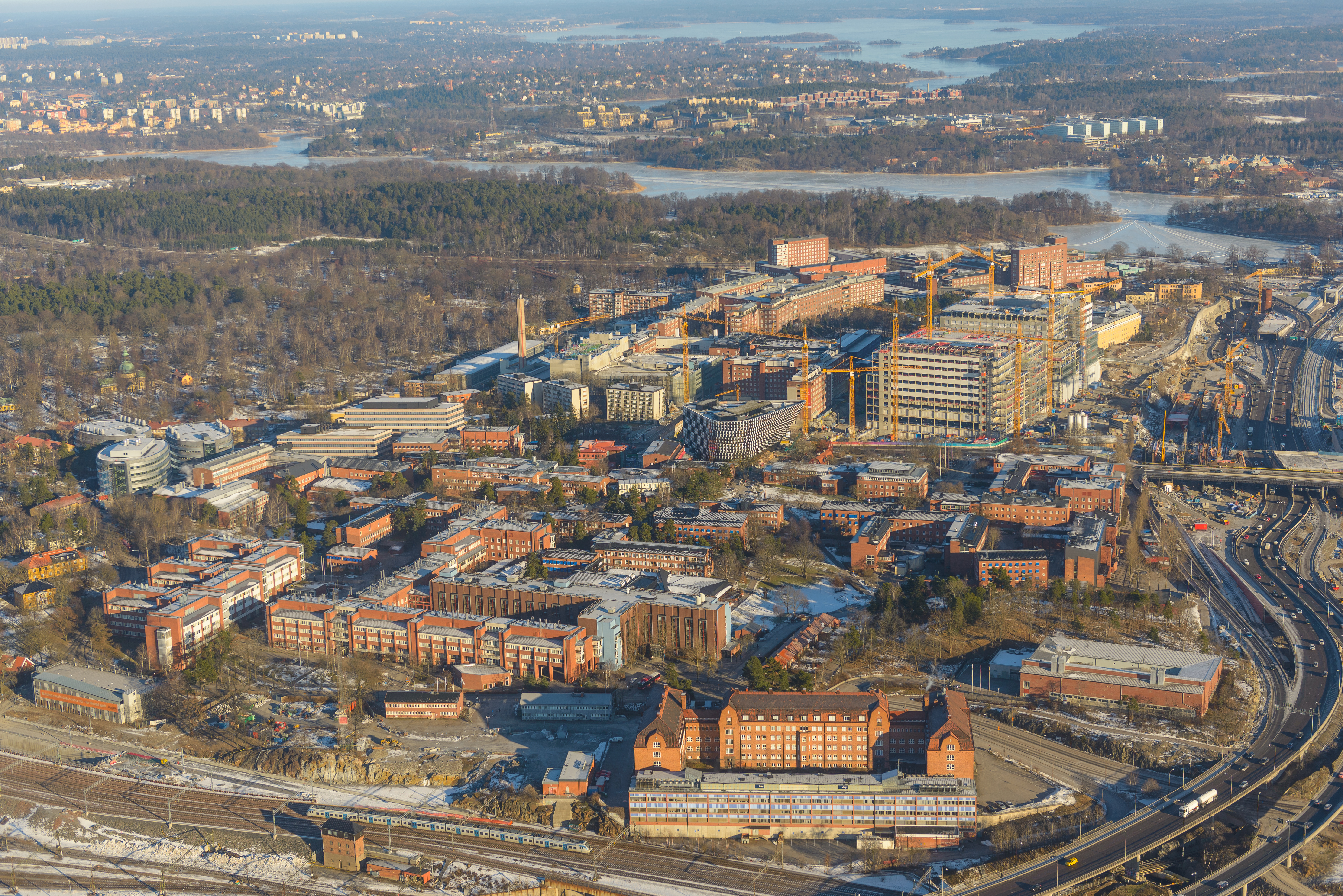 Karolinska institutet and Karolinska sjukhuset.